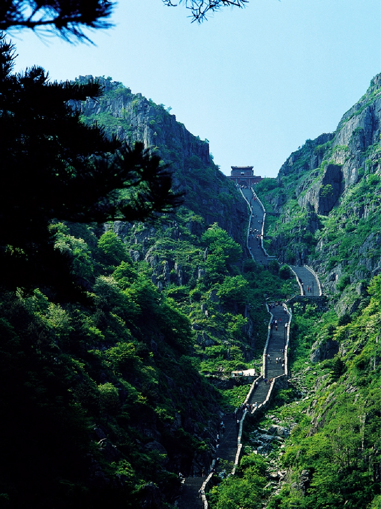 Stone staircase up Tai'shan—Mount Tai, in Shandong Province, eastern China. With stone gate at the top.